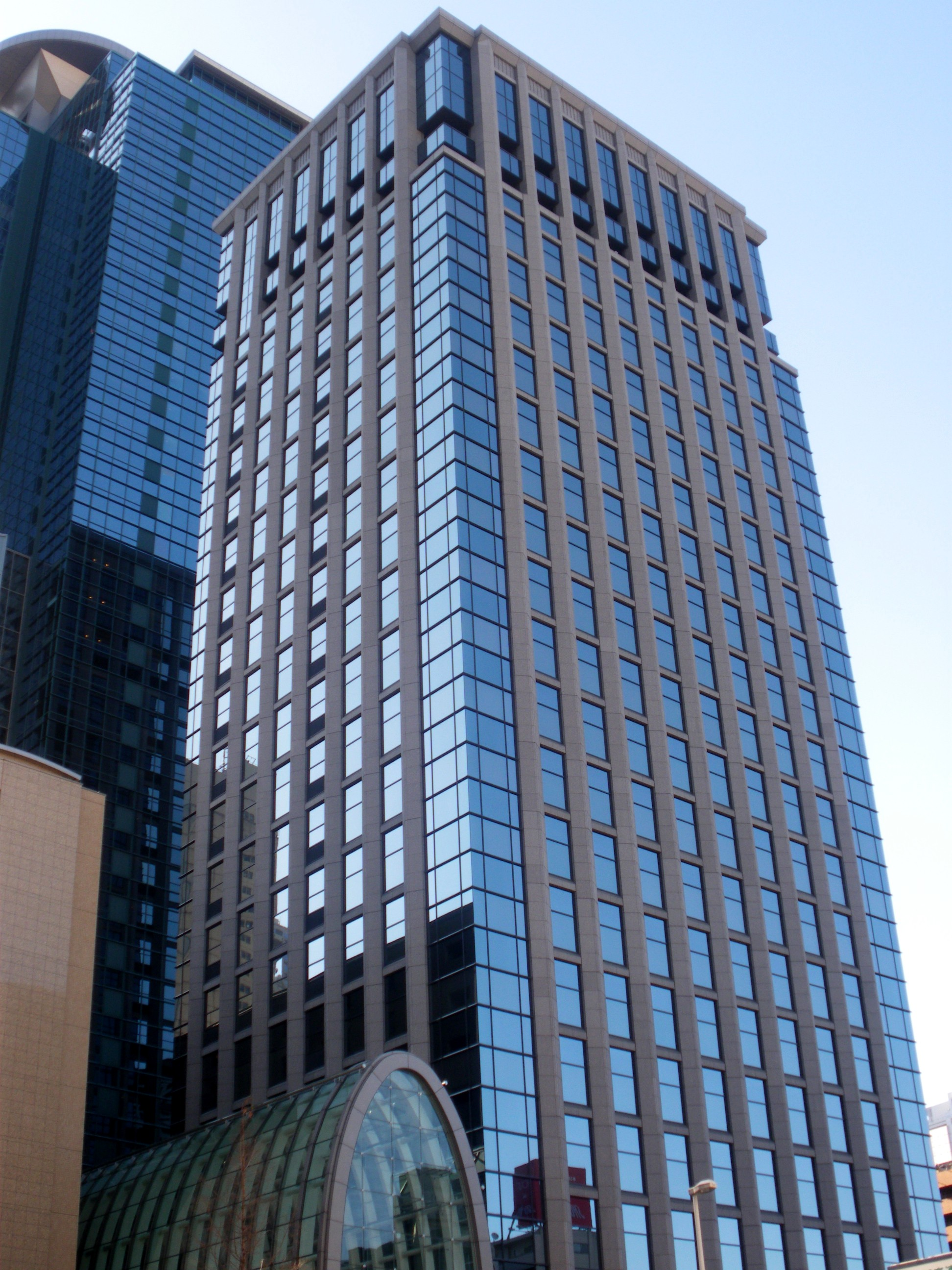 A photo of Nittochi Nishishinjuku building,one of the skyscrapers in Shinjuku,Tokyo,Japan.